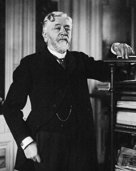 French engineer Gustave Eiffel (1832-1923).